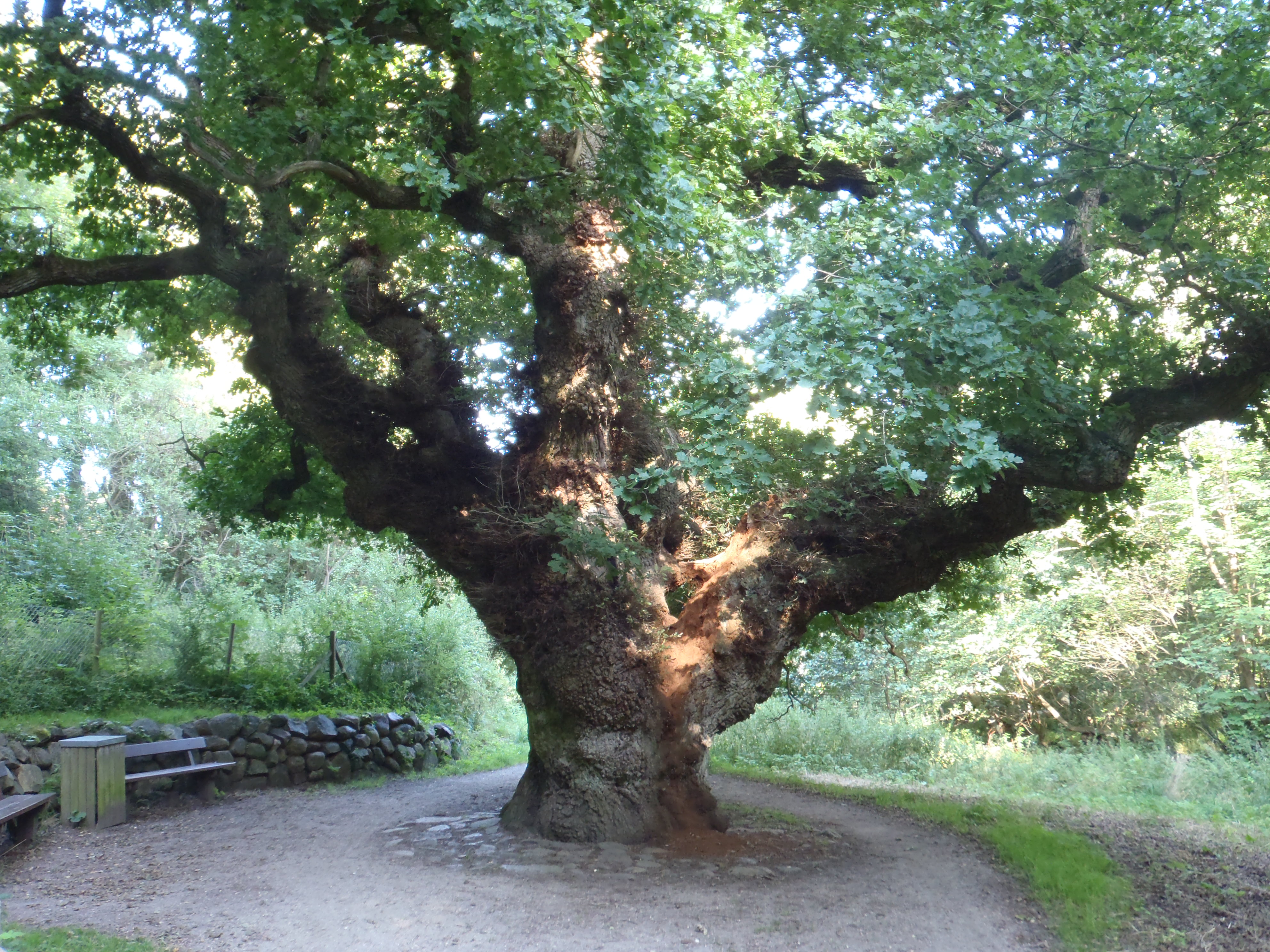 Old oak tree called "Klopstocks Eg" after the German poet Friedrich Gottlieb Klopstock. The oak is in the middle of Prinsessestien, Kongens Lyngby, Denmark.